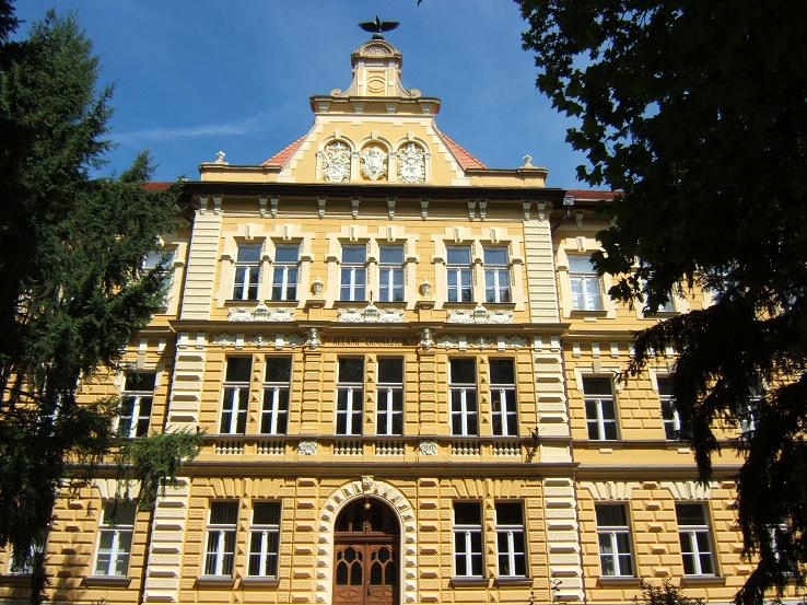 The building of the Táncsics Mihály Gimnázium, in Kaposvár